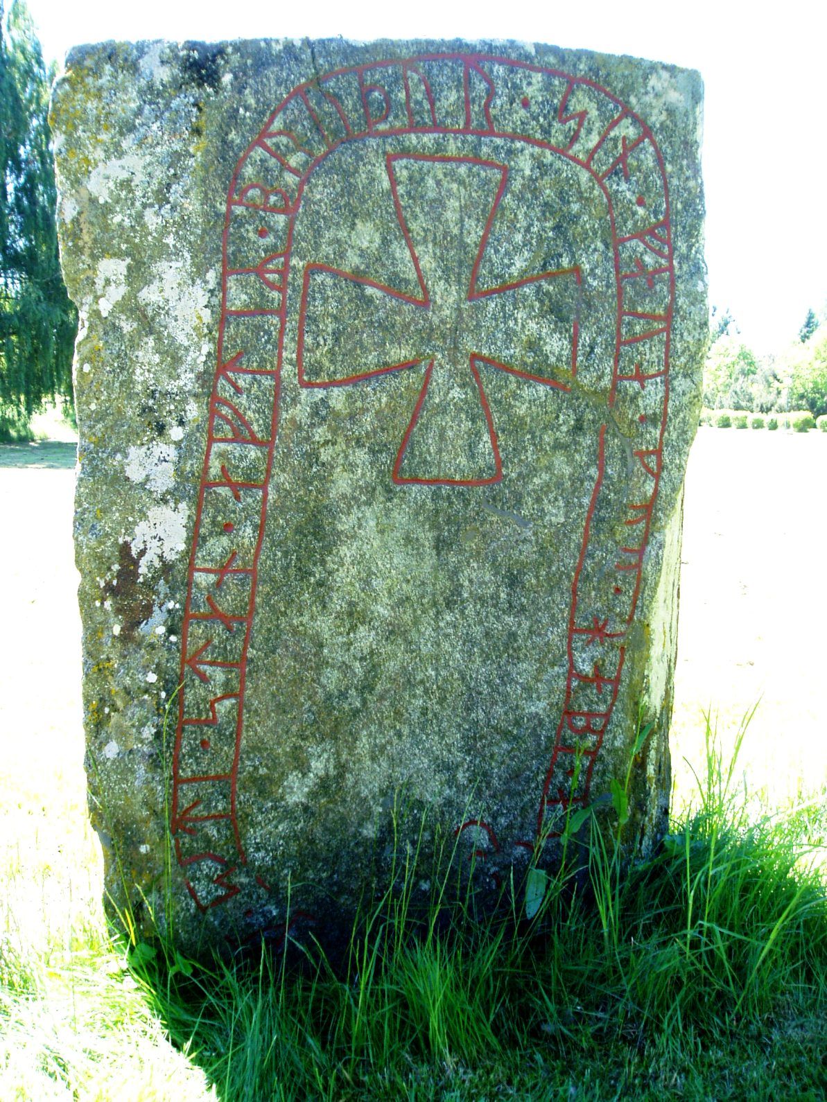 Runestone at Toftaholm, Småland, Sweden